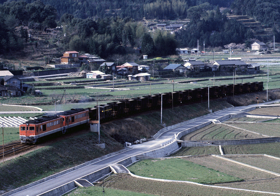 A pair of JNR Class DF50 diesel locomotives, DF50 18 and DF50 43 on a limestone train on the Ohirayama mining line in Shikoku